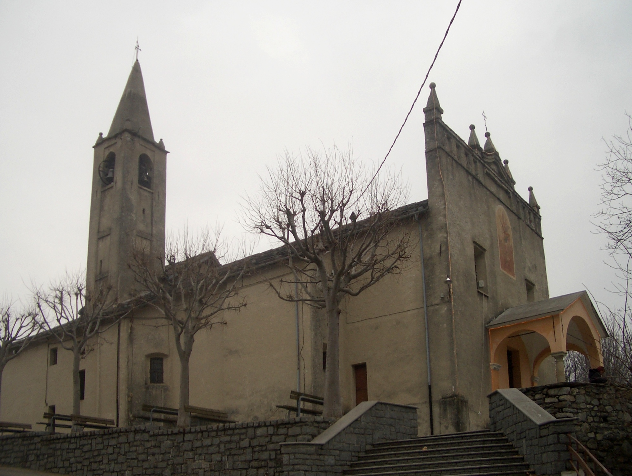 St Michael Church, Brosso, Turin, Italy